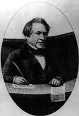 Asbury Dickins (1780-1861), Secretary of the Senate